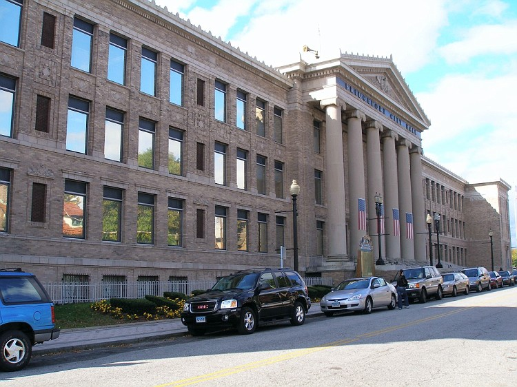 The current Bridgeport City Hall, Bridgeport, Connecticut. Part of the Golden Hill Historic District.